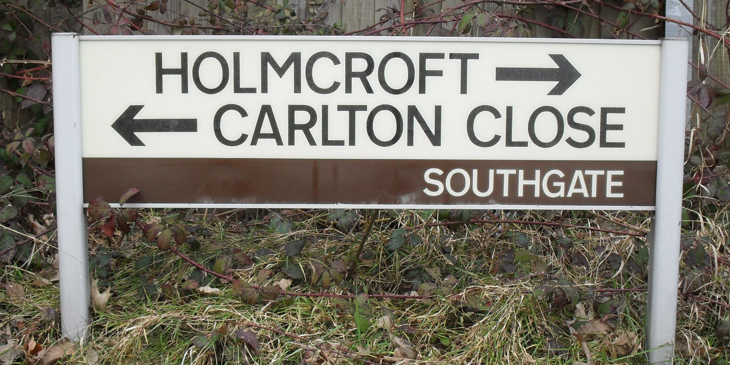 When the New Town of Crawley (in West Sussex, England) was planned, each residential neighbourhood was allocated a colour, which appeared on street name signs together with the neighbourhood's name. The Southgate neighbourhood's colour is dark brown. This is a typical example of a Southgate street name sign.